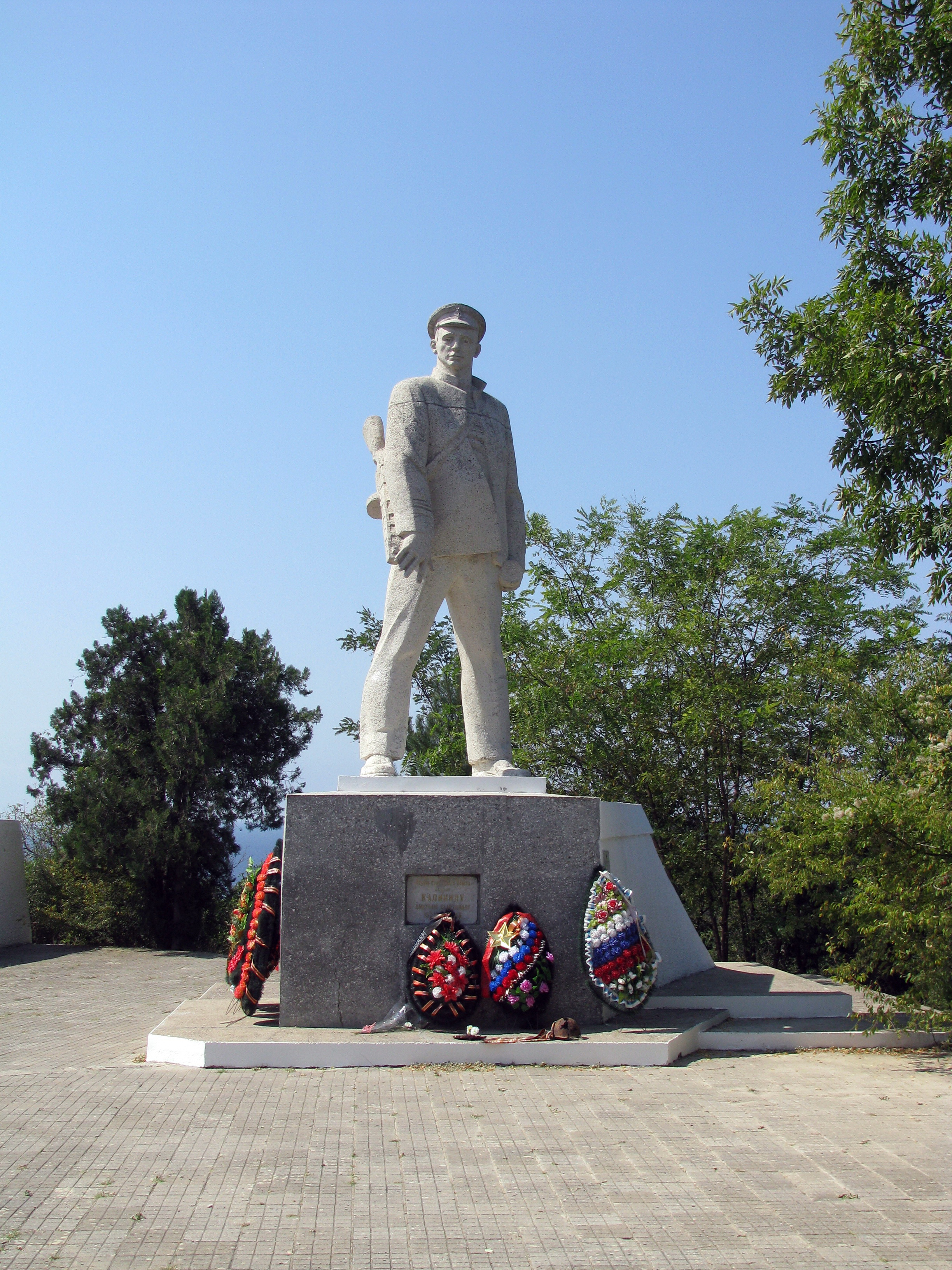 Memorial WWII near Varvarovskaya shchel'